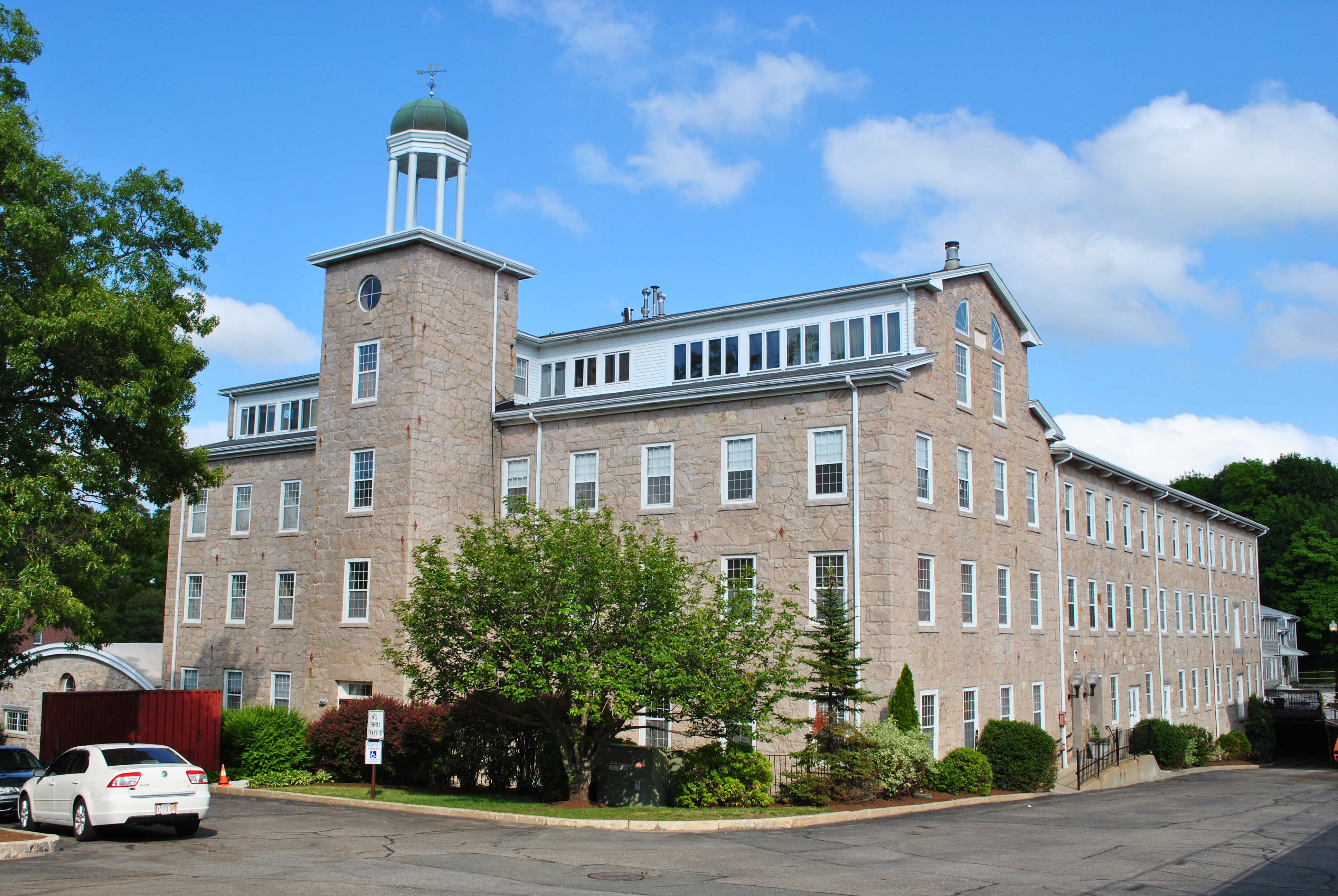 The main Stone Mill Condo building.